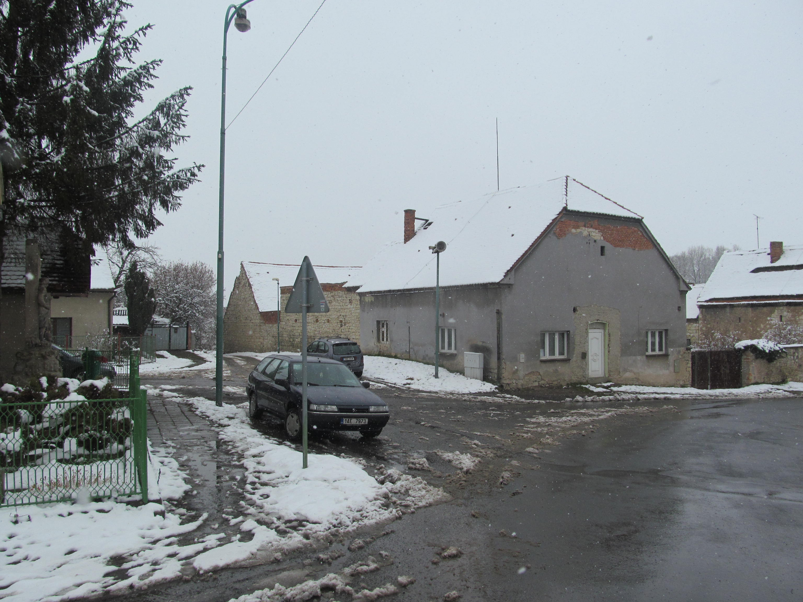 House No 1 in Jimlín